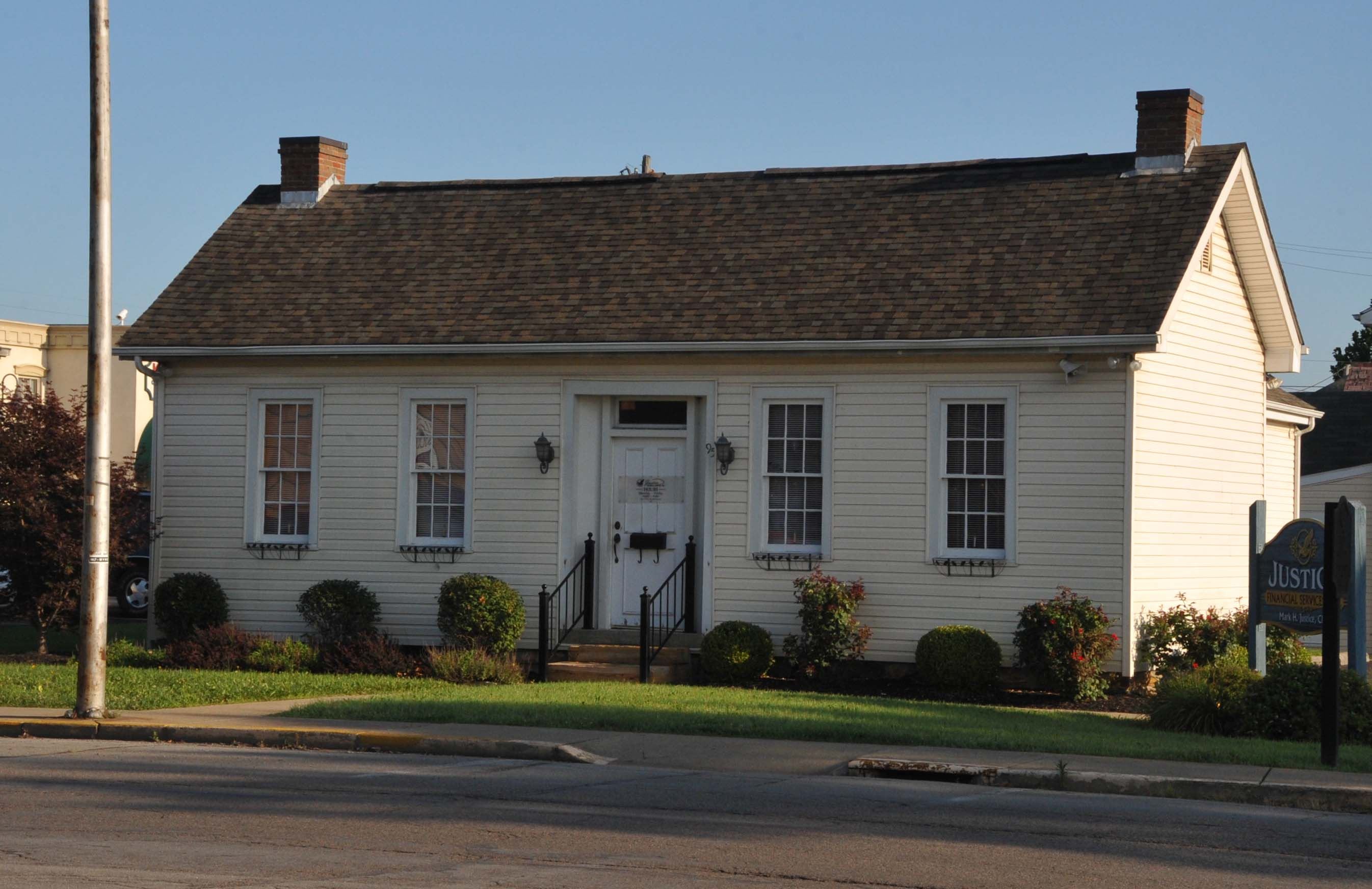 GENERAL ARTHUR ST. CLAIR, FIRST GOVERNOR OF THE NORTHWEST TERRITORY HAD HIS HEADQUARTERS HERE, 1800-1802